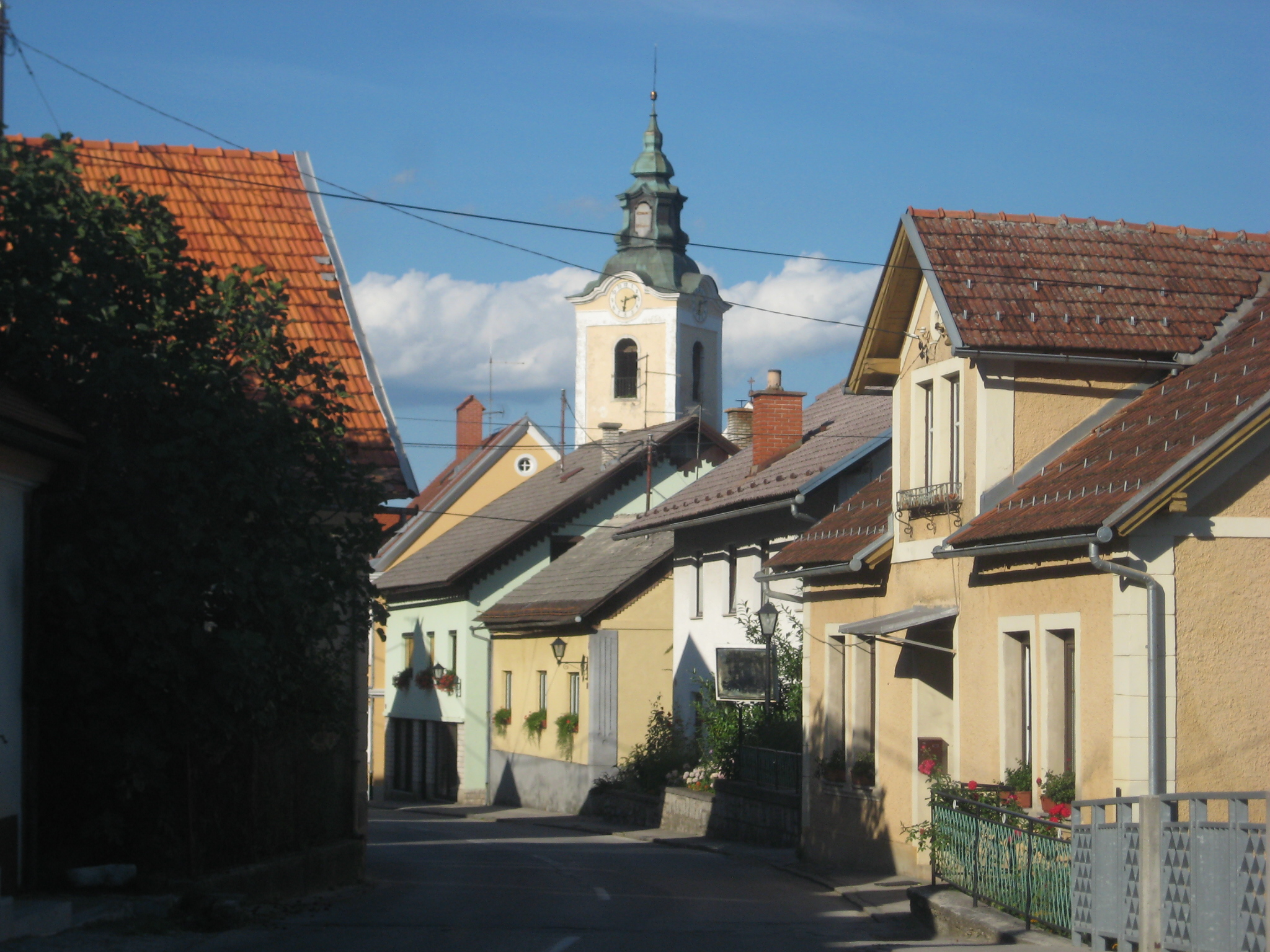 Semič, town in Slovenia